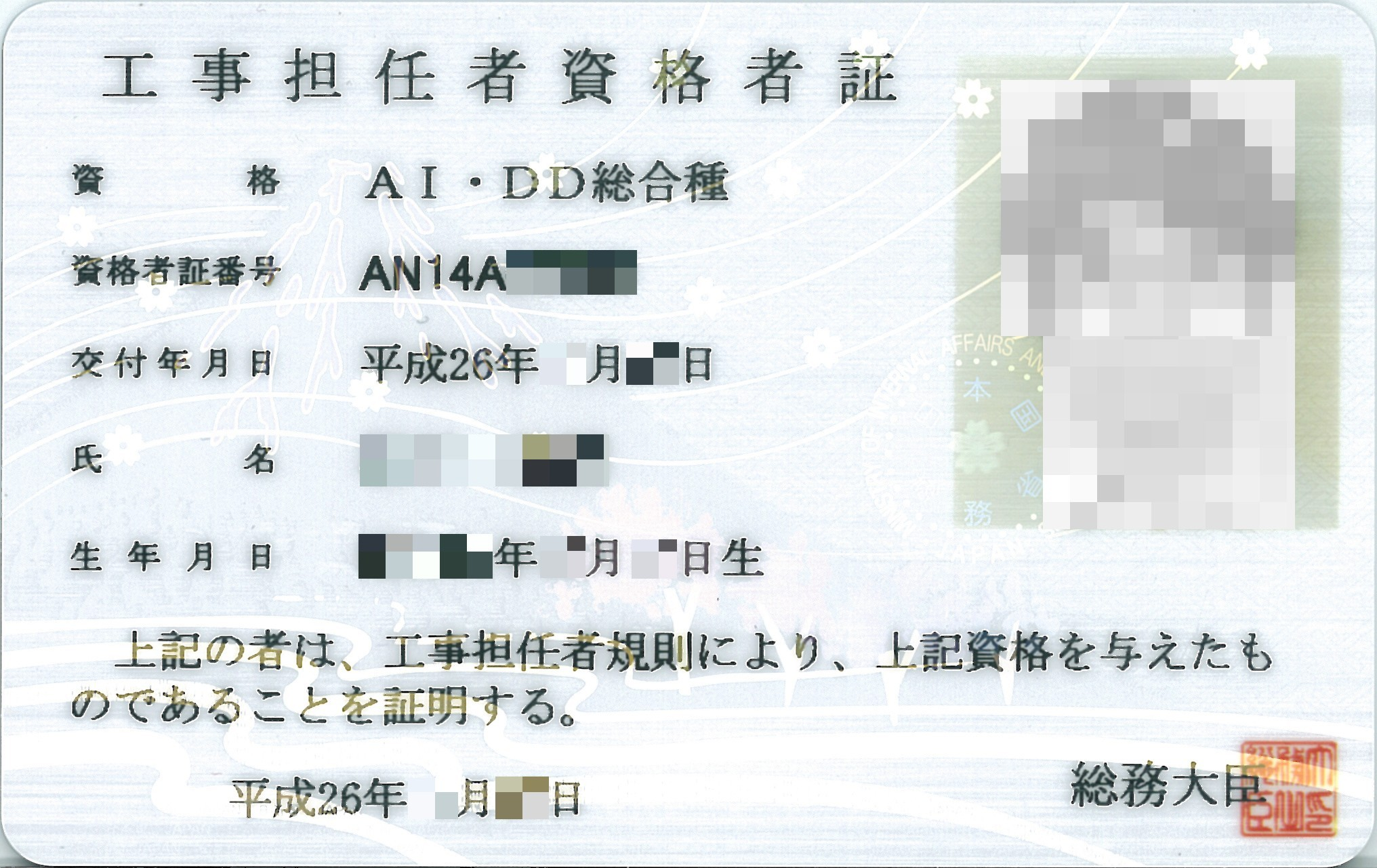 License card of AI and DD Installation Technician License. Issued by the Minister for Internal Affairs and Communications(Japan).